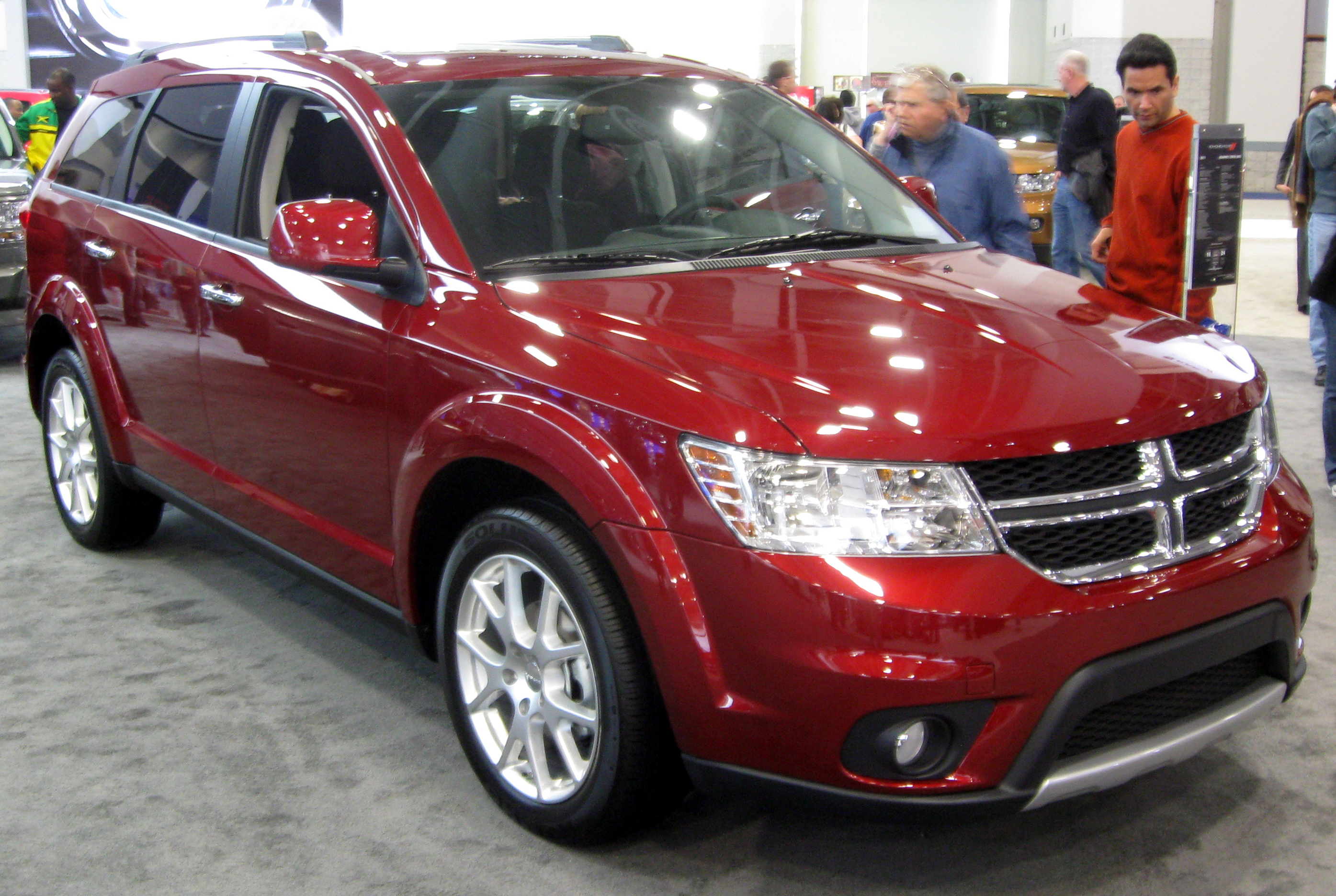 2011 Dodge Journey photographed at the 2011 Washington (D.C.) Auto Show.